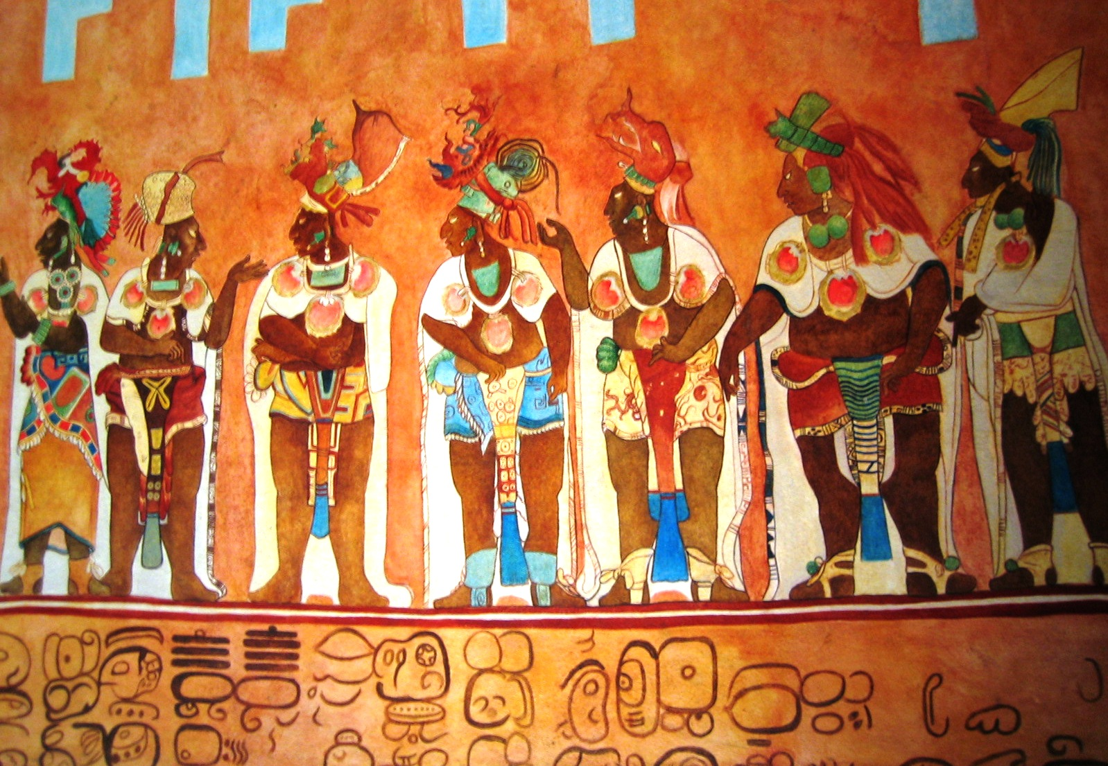 Copy of Bonampak Painting in Chetumal. This is an artist's copy of a mural at the Temple of the Murals at Bonampak, a Maya archeological site. The original murals are badly weathered and faded.